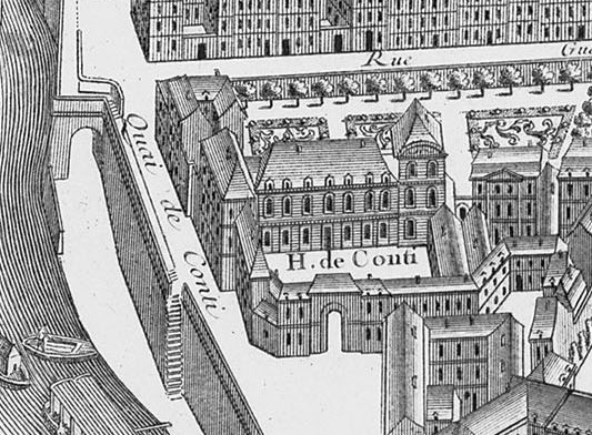 Hôtel de Conti on the Turgot map of Paris.